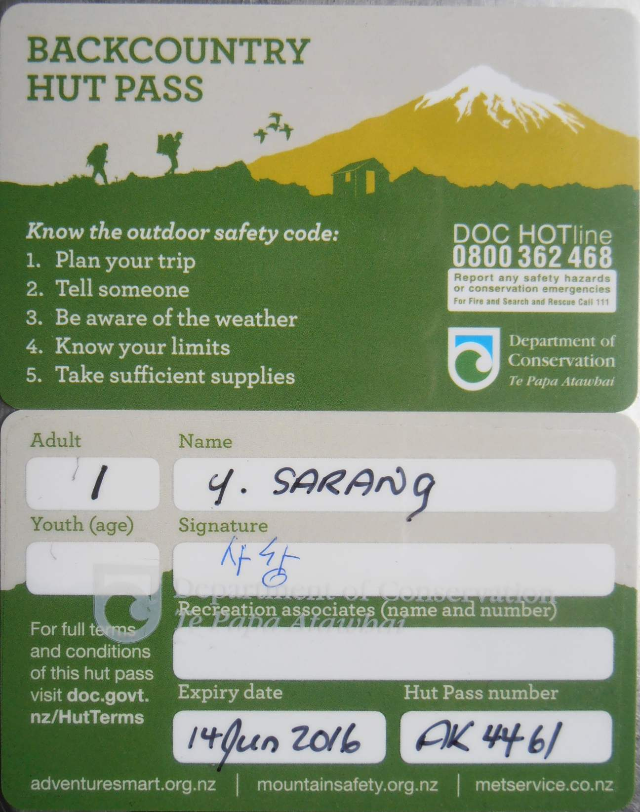 My Backcountry Hut Pass for 2015/2016, front (with Mount Taranaki) and reverse.